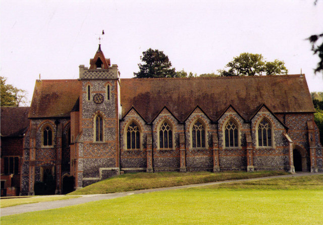 Bradfield College Chapel Grade 2 listed building erected in 1890.